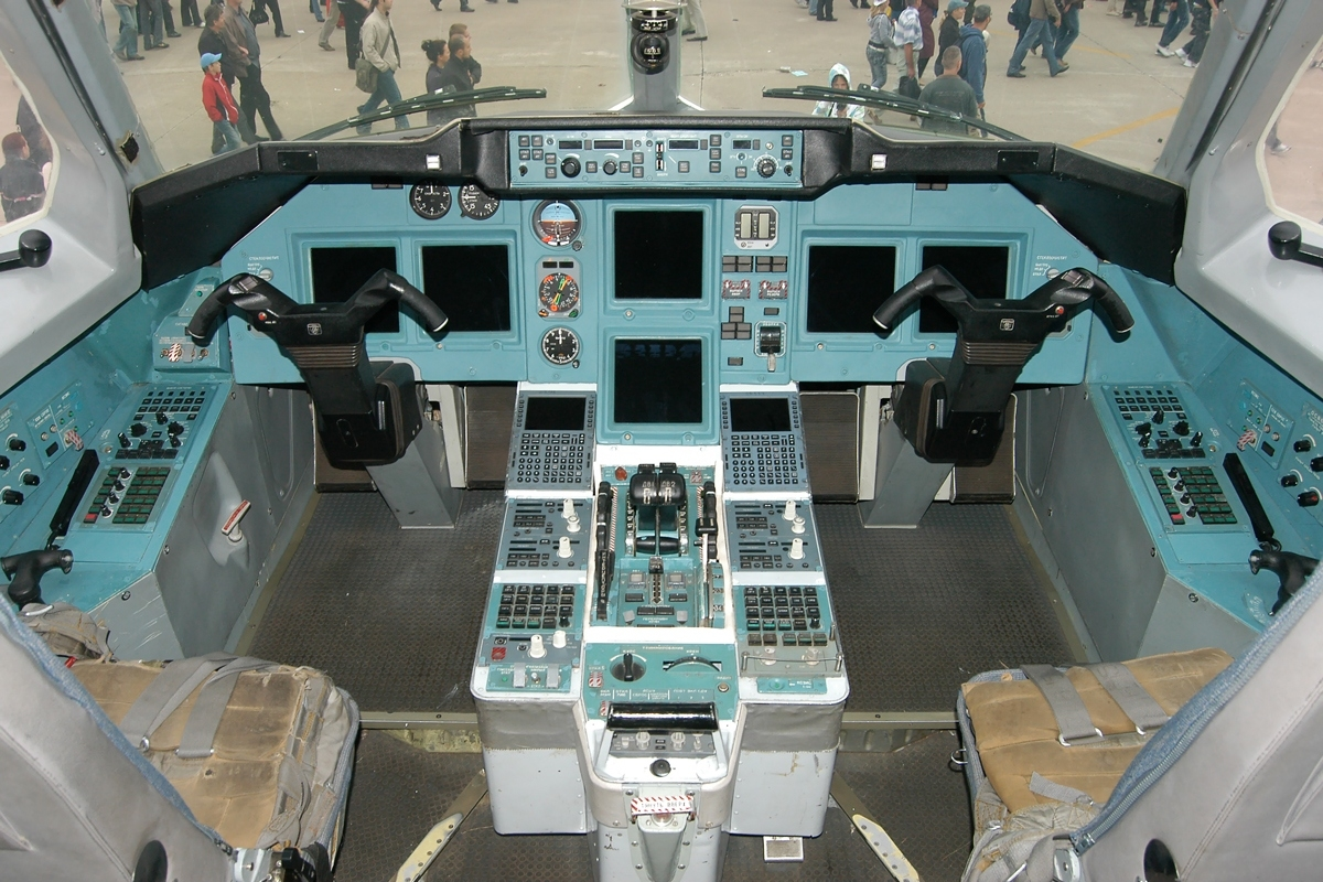 Cockpit of Tupolev Tu-334 airliner